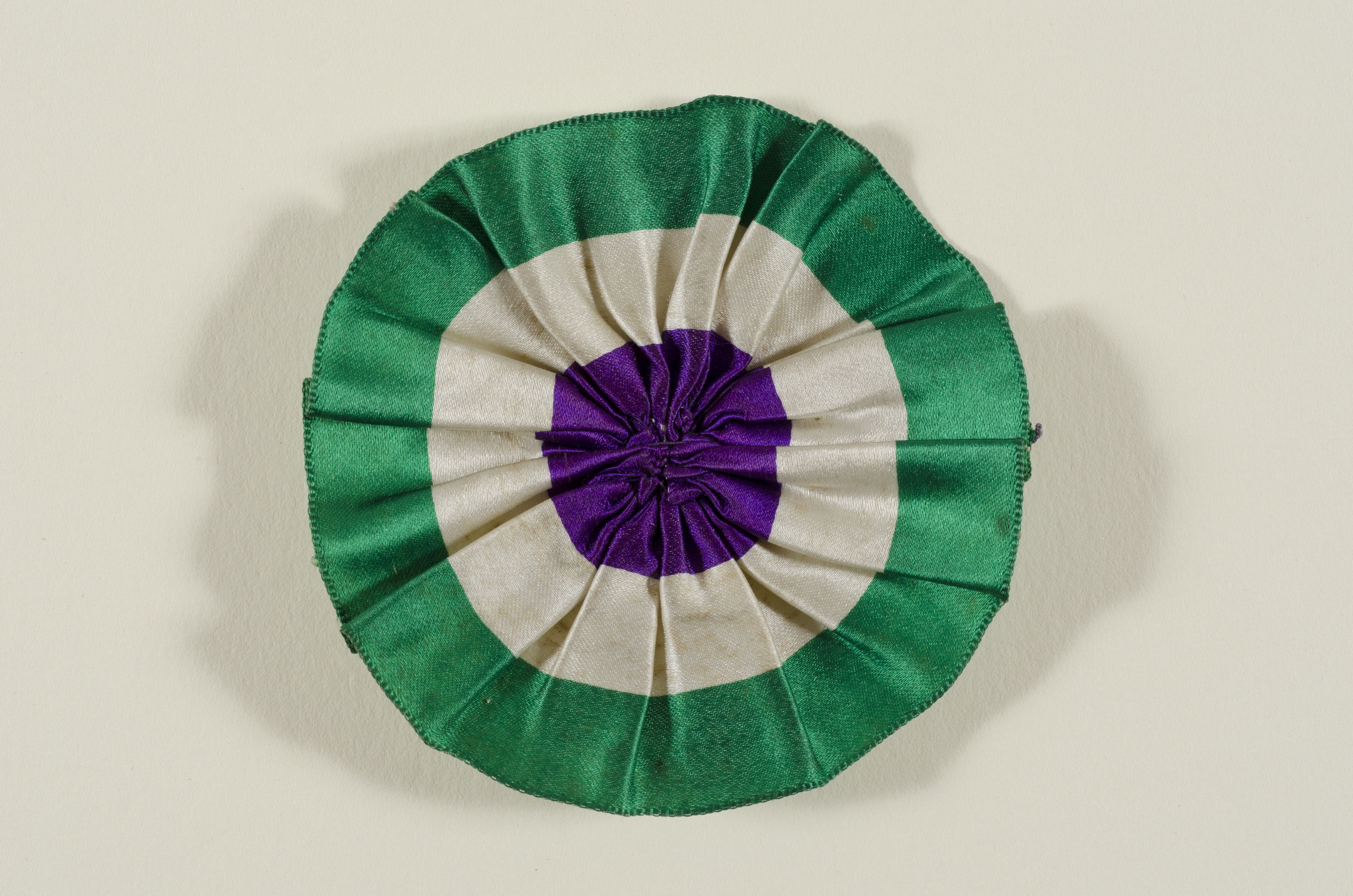 7EWD/M/19bRosette, silk, made from ribbon, white, green, purple, a small safety pin attached on the back